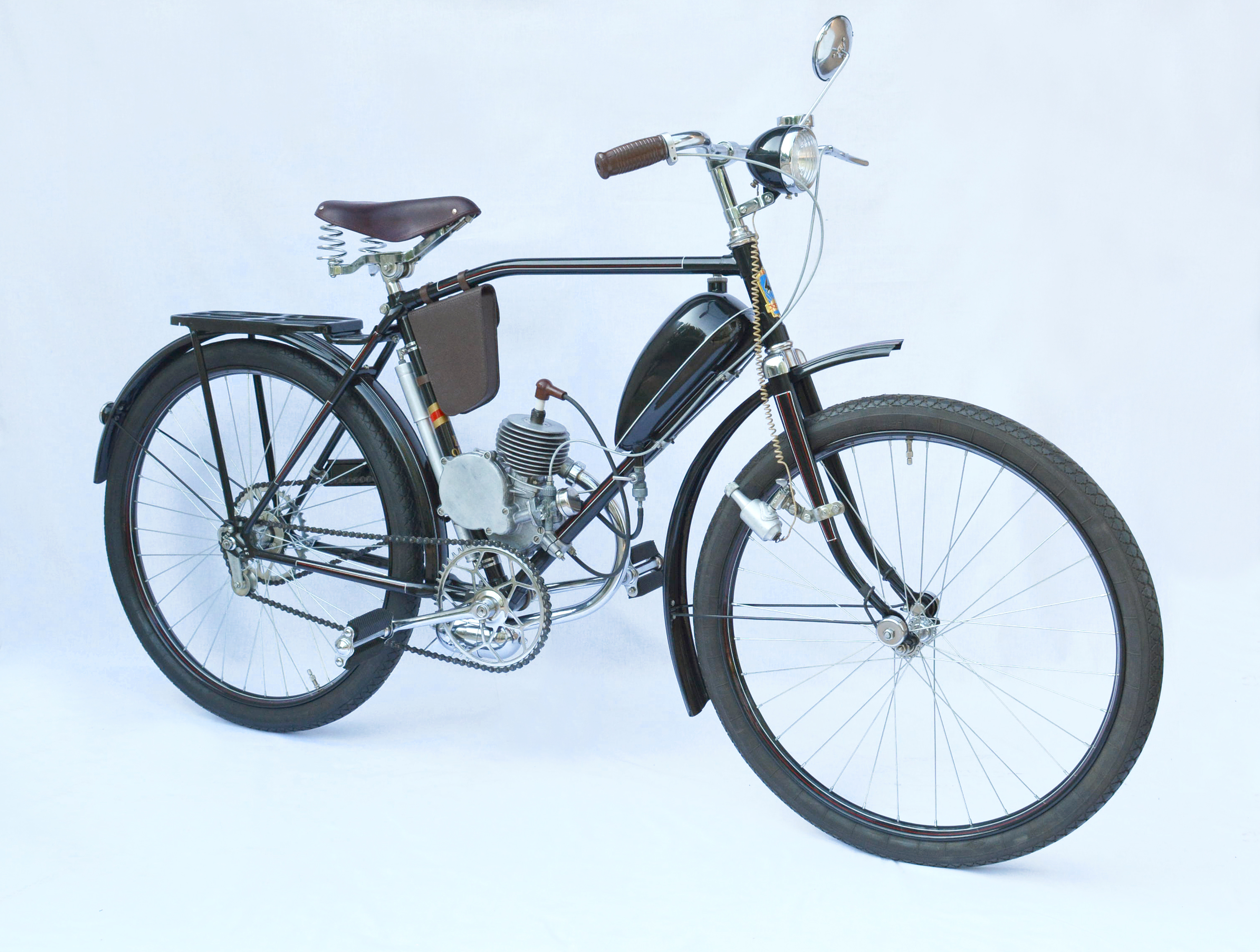 USSR/Ukraine motorized bicycle W-901 KhWZ (1958) with D-4 engine